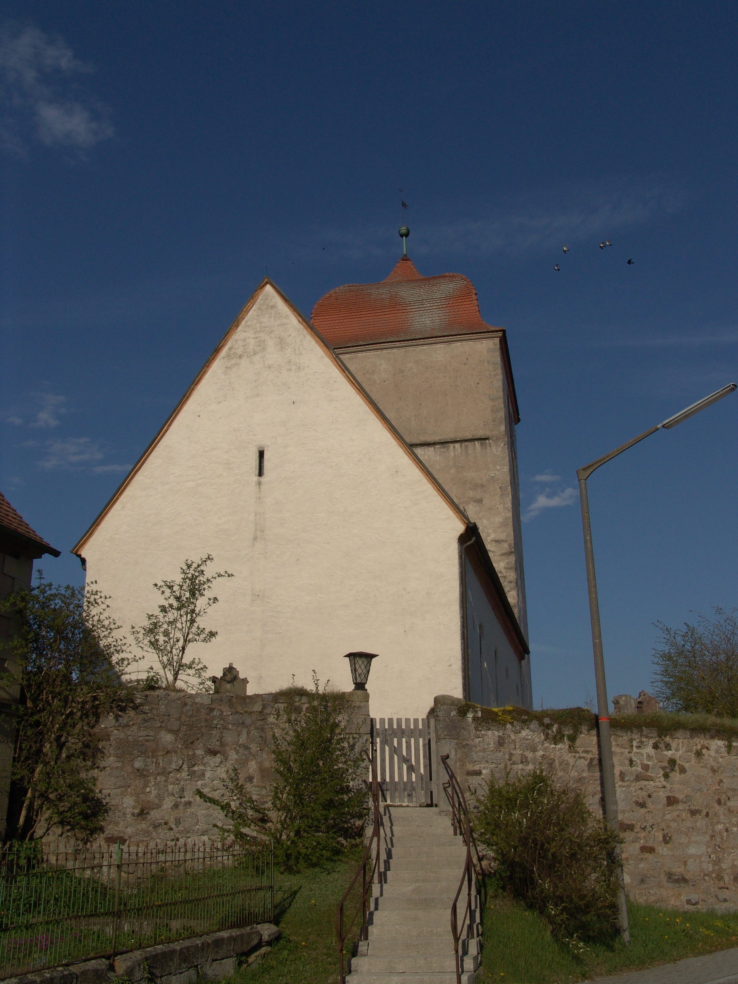 evang.-luth. Michaelskirche in Mosbach